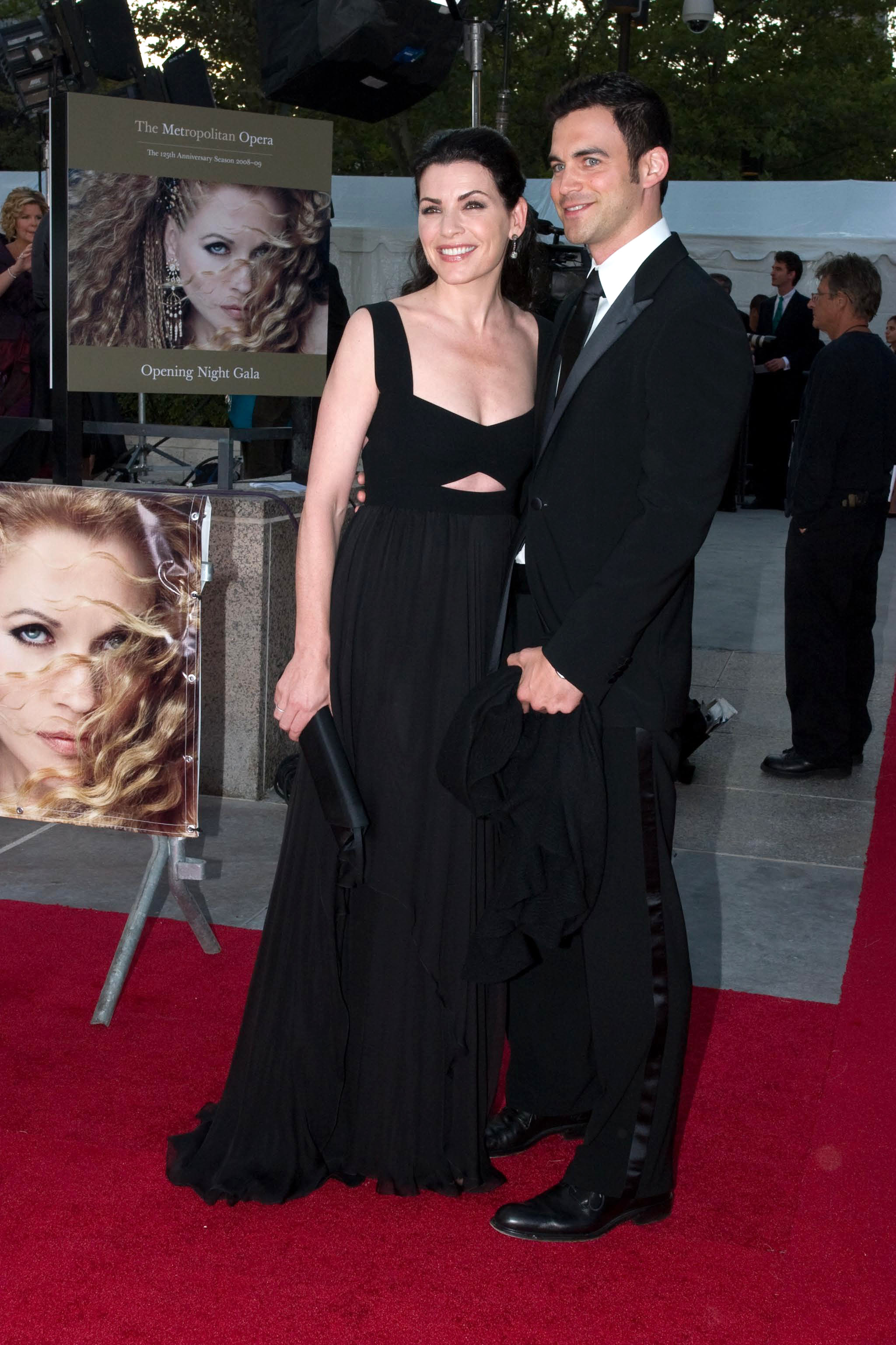 Julianna Margulies and her husband Keith Lieberthal at the Metropolitan Opera opening in 2008. © Rubenstein, photographer Martyna Borkowski